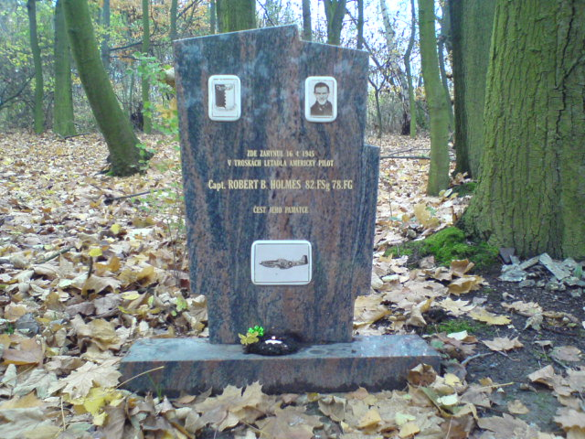 A memorial to Capt. Robert B. Holmes, 82nd Fighter Squadron, 78th Fighter Group, 8th Air Force, who died in his aircraft on April 16, 1945 in Prague Divoká Šárka